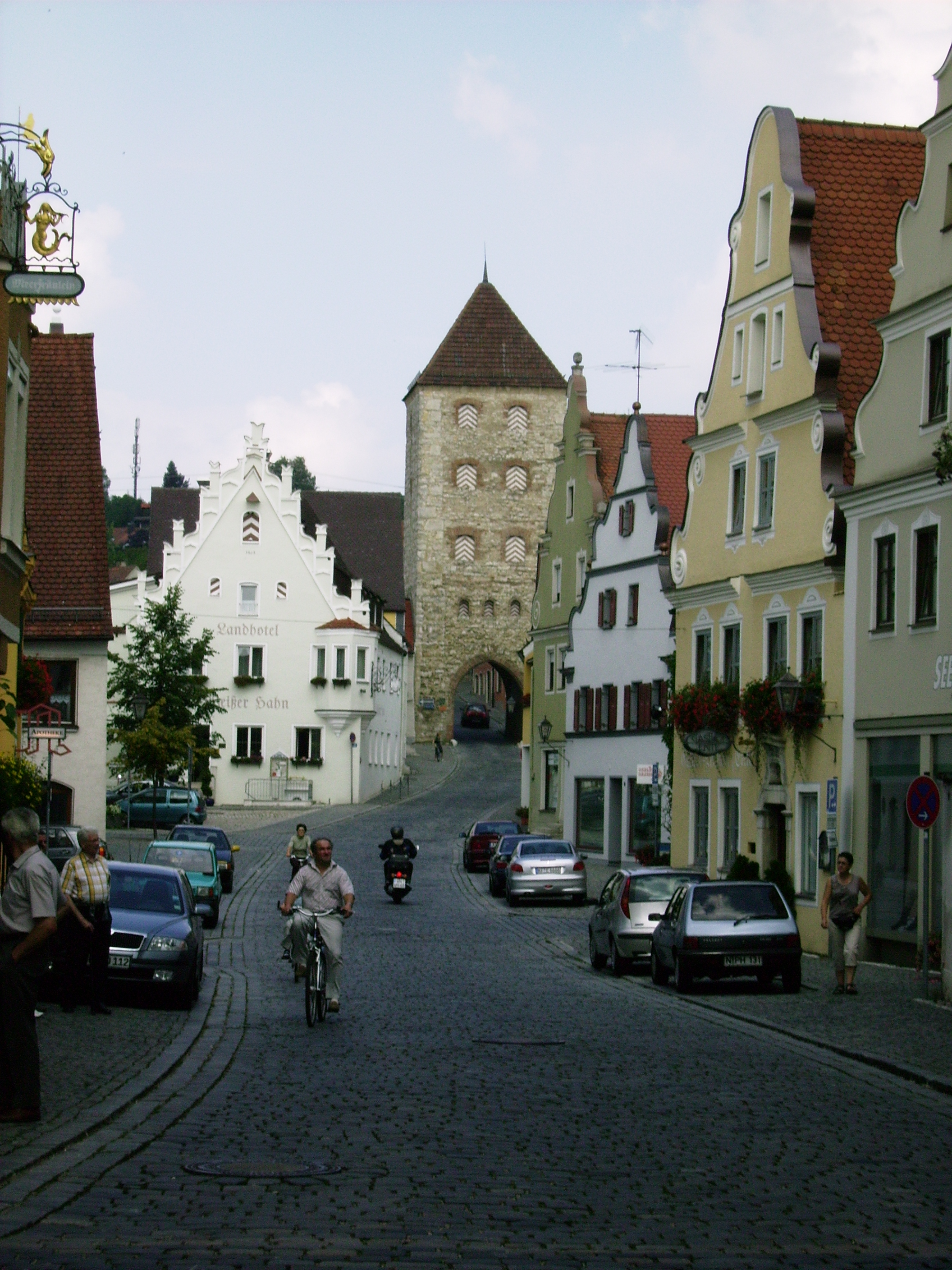 Stadttor in Wemding - City gate in Wemding